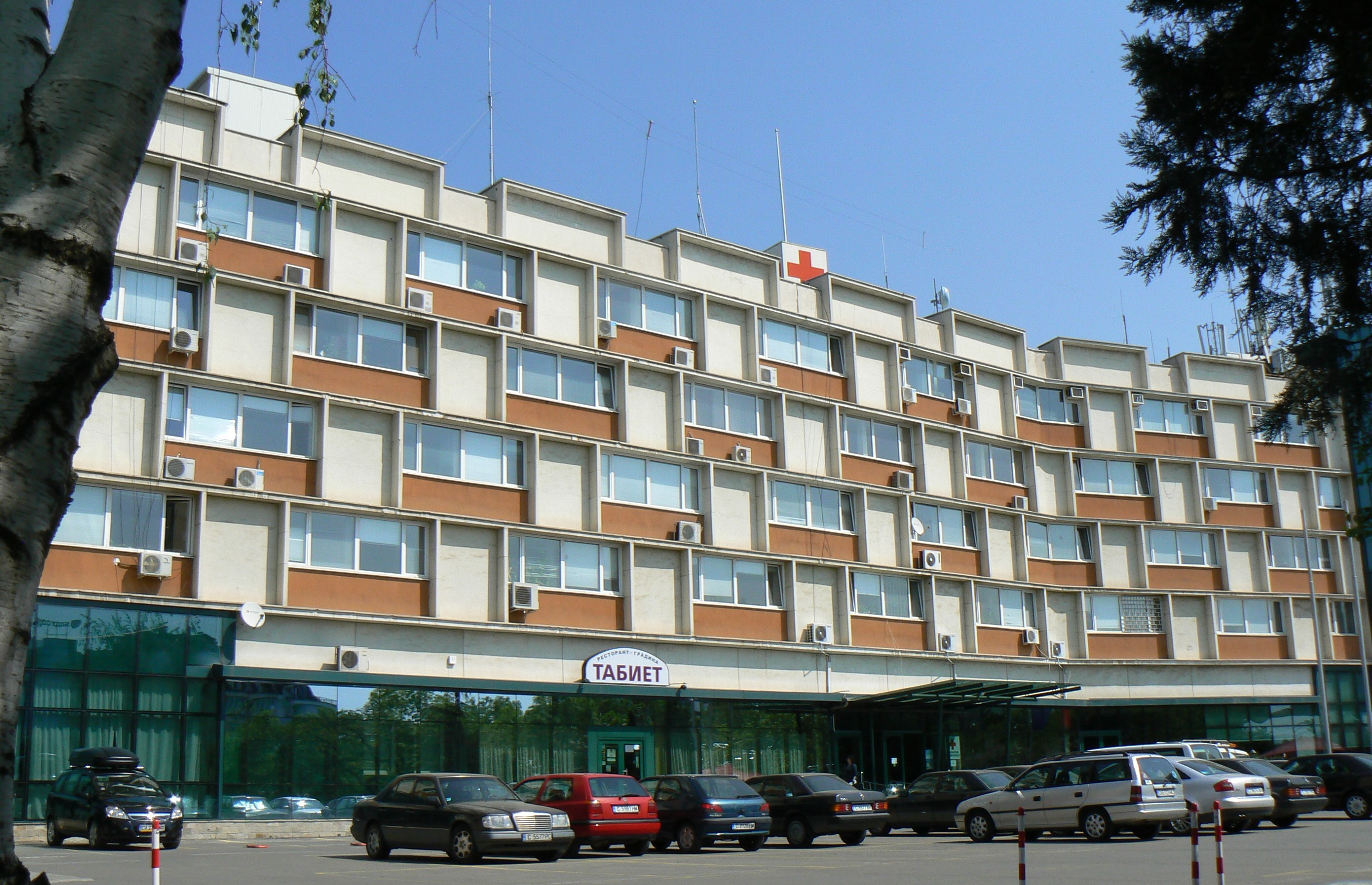 National Council of the Bulgarian Red Cross, 76 James Bourchier Str., Sofia